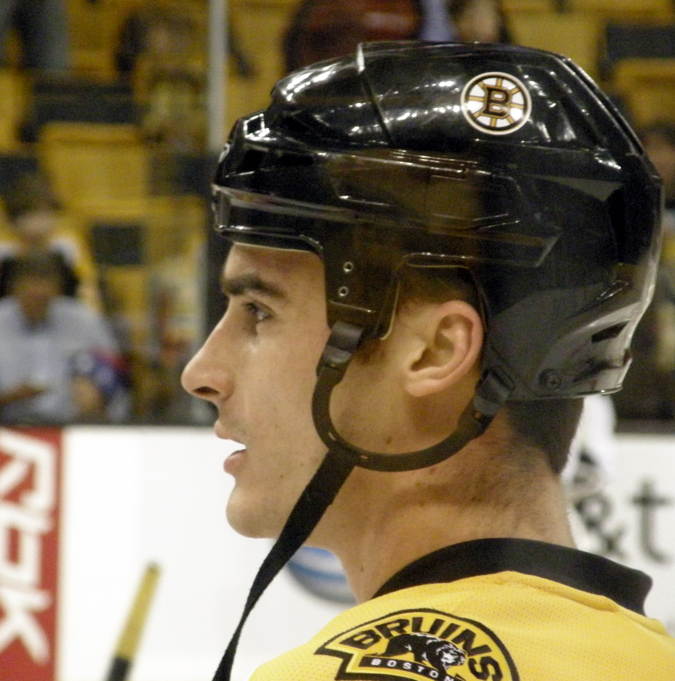 #10 Brandon Bochenski (RW), Boston Bruins player